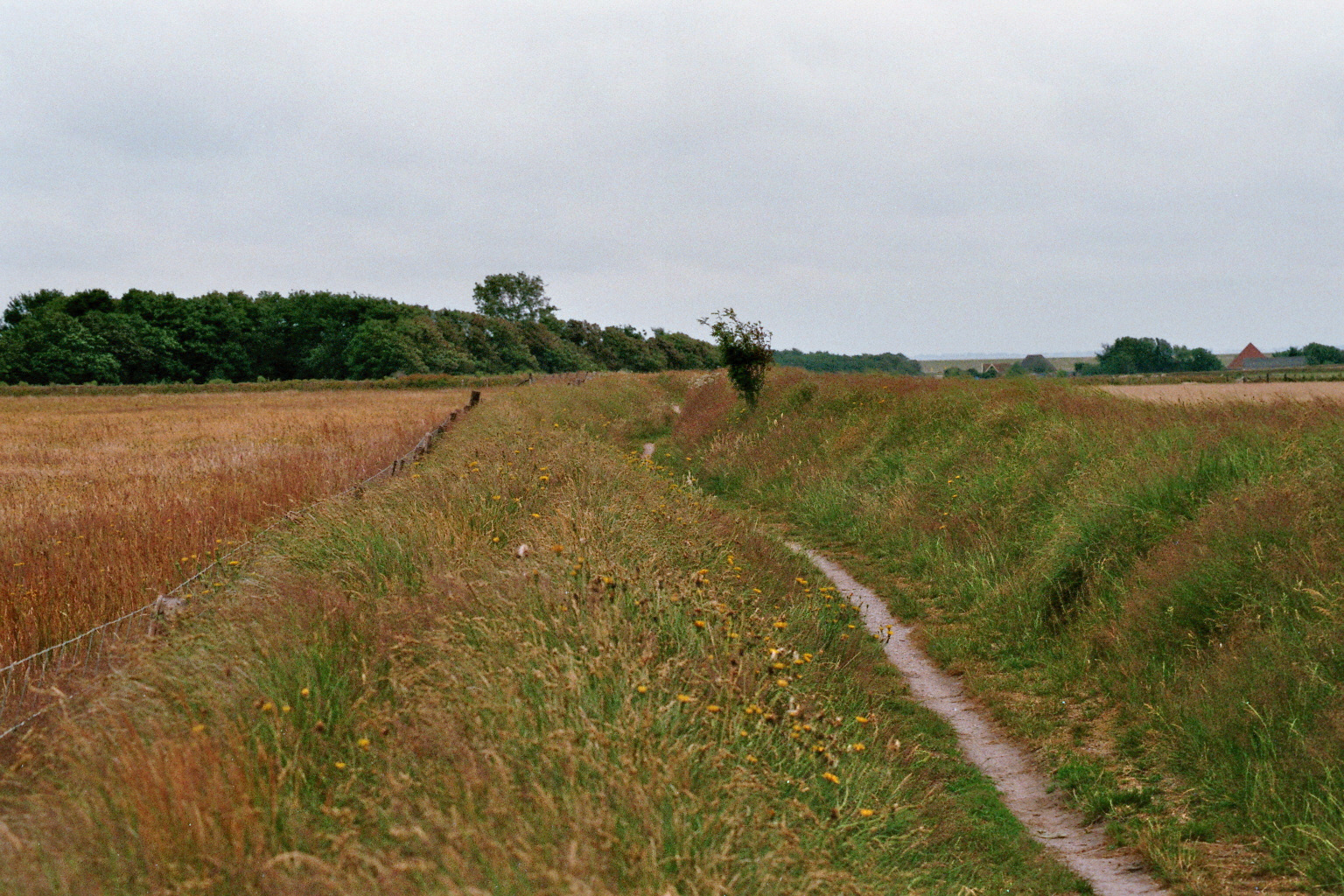 A footpath across The hoge Berg area between walls made of earth so called tuinwallen. Camera: Canon Eos 3000 Film: Fujifilm Superia X-tra 400 ISO Lens: Tamron AF70-300mm